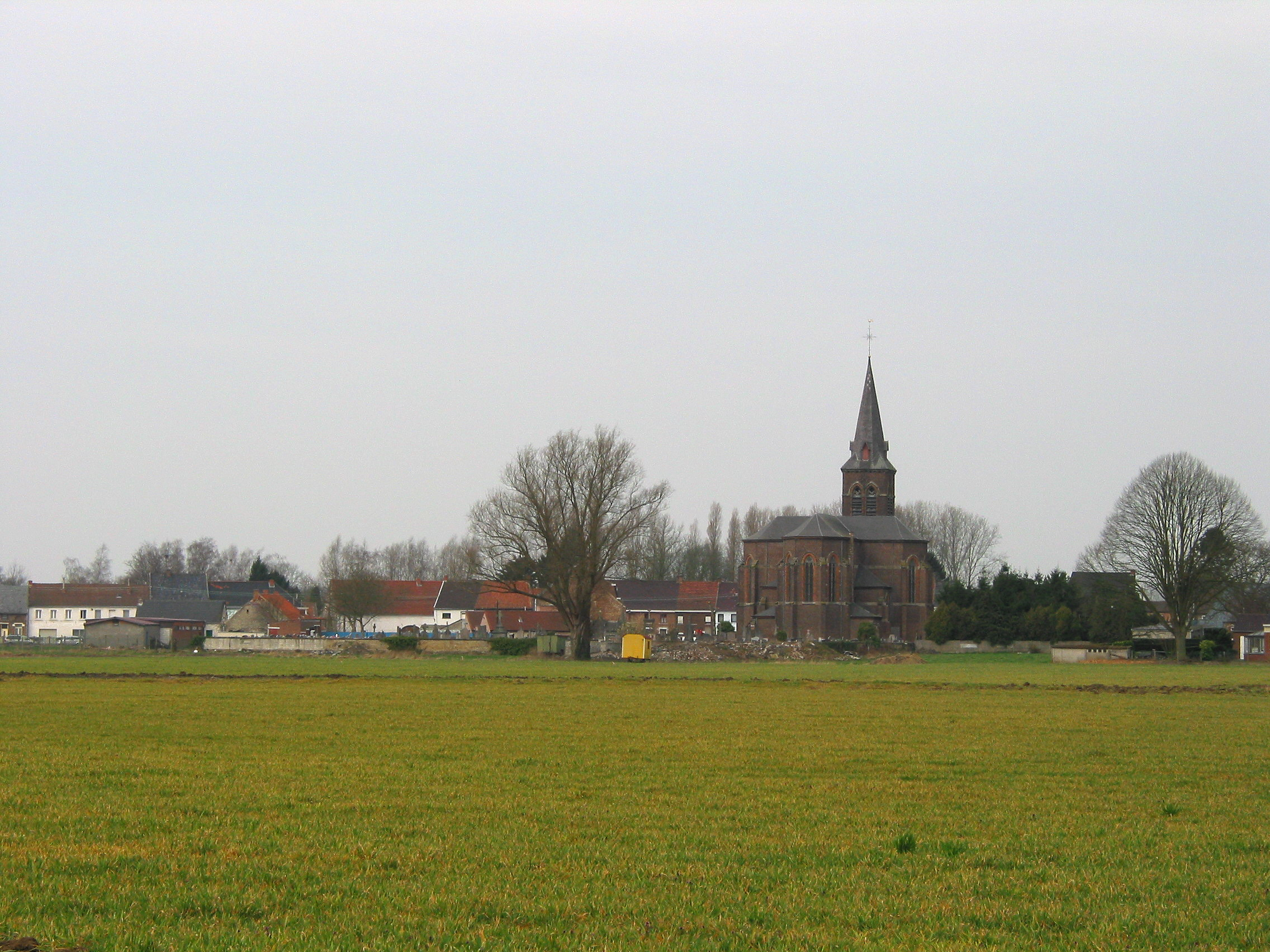 Bernissart (Belgium), the city of the iguanodons.